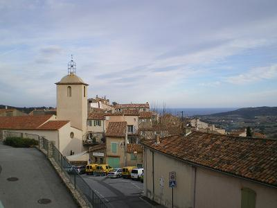 Taken by myself - January 23rd, 2007